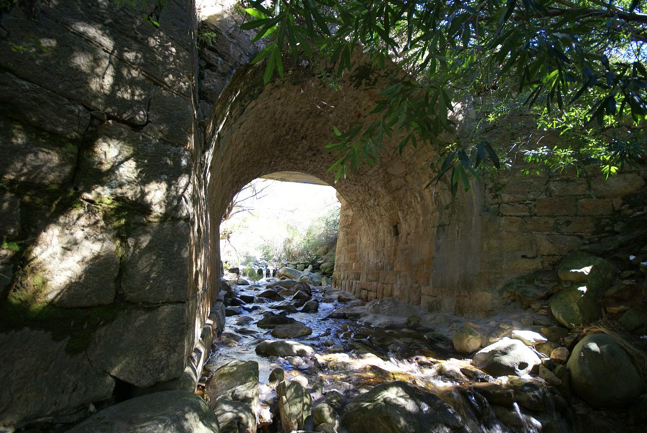 Jan Joubert's Gat bridge is situated on the Franschhoek Mountain pass in the Cape Winelands in South Africa. Built in 1825 by Holloway to cross a deep ravine, it is the oldest stone bridge still in use anywhere in South Africa.